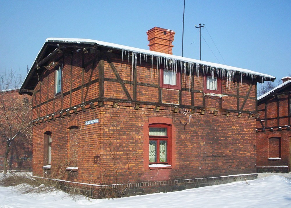 House for workpeople (from XIX cetury), ul. Staszica 11, Żyrardów, Poland 05.1975.